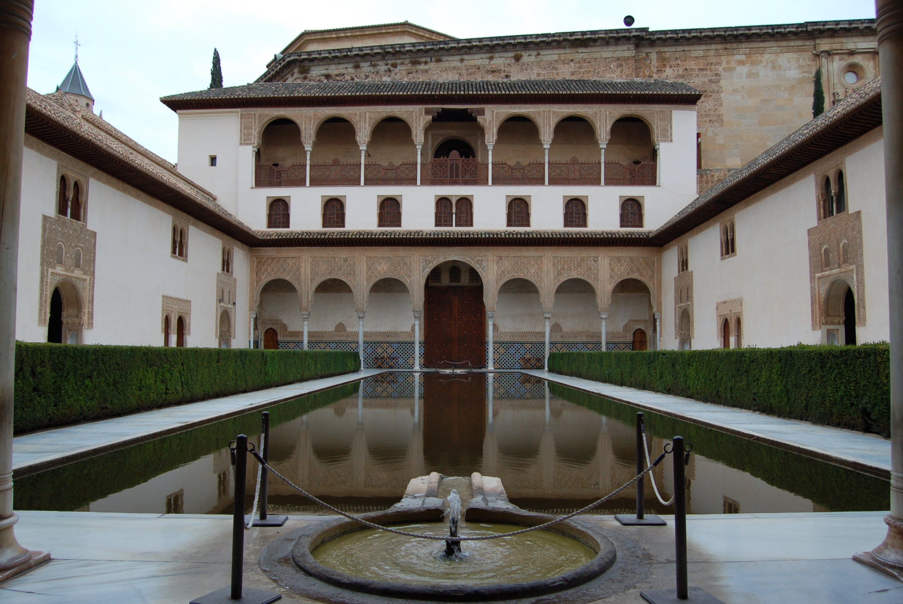 The Myrtle Patio in the Nasrid Palace at the Alhambra